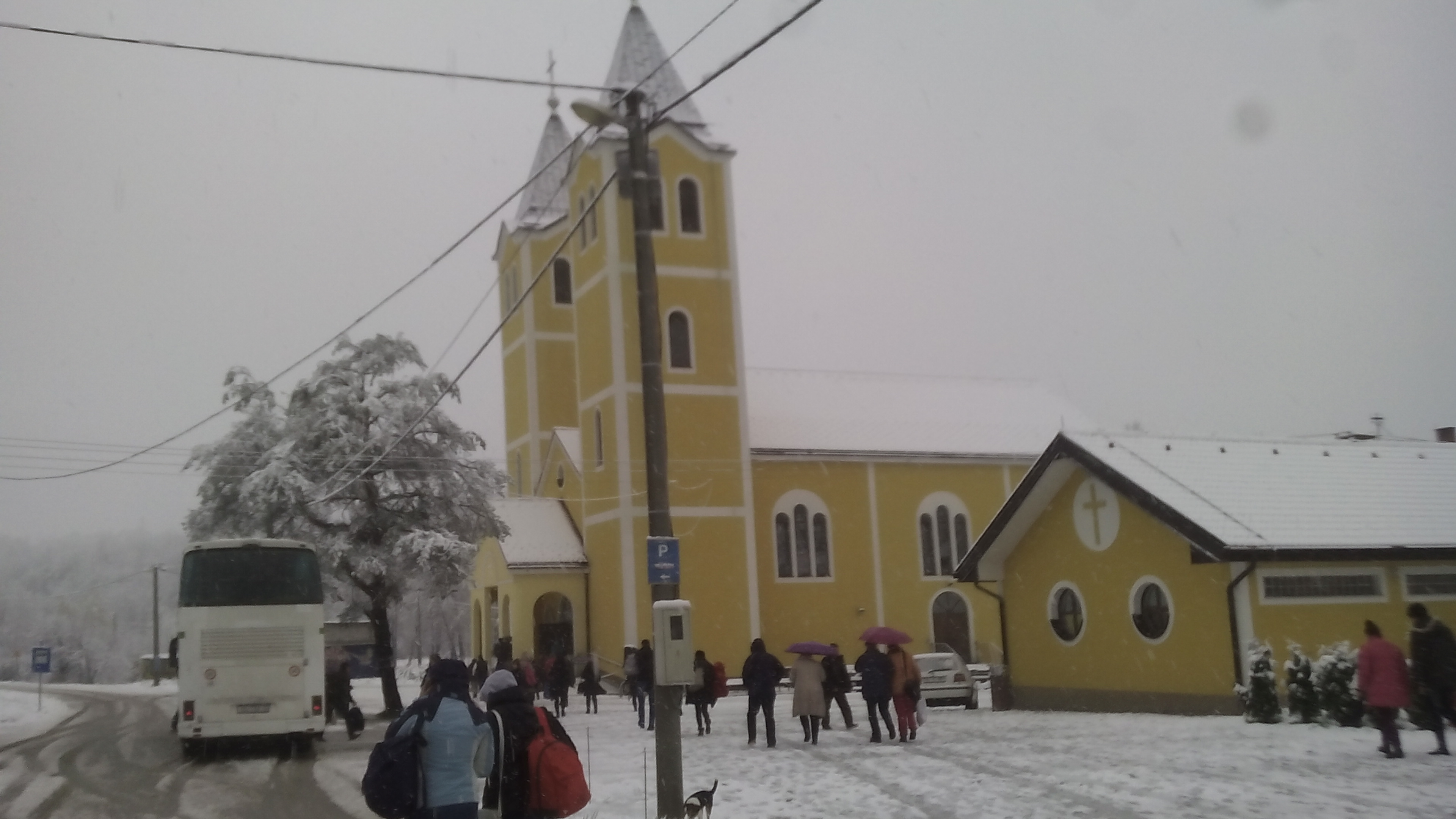 Sacred Heart of Jesus church, Šurkovac